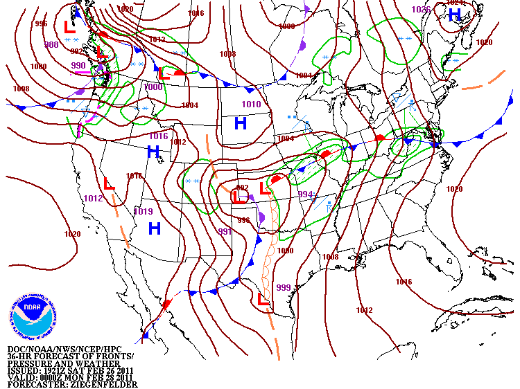 This is a 36 hour forecast map, or prognostic chart, generated by Paul Allen Zeigenfelder of the Hydrometeorological Prediction Center on the day shift of February 26, 2011